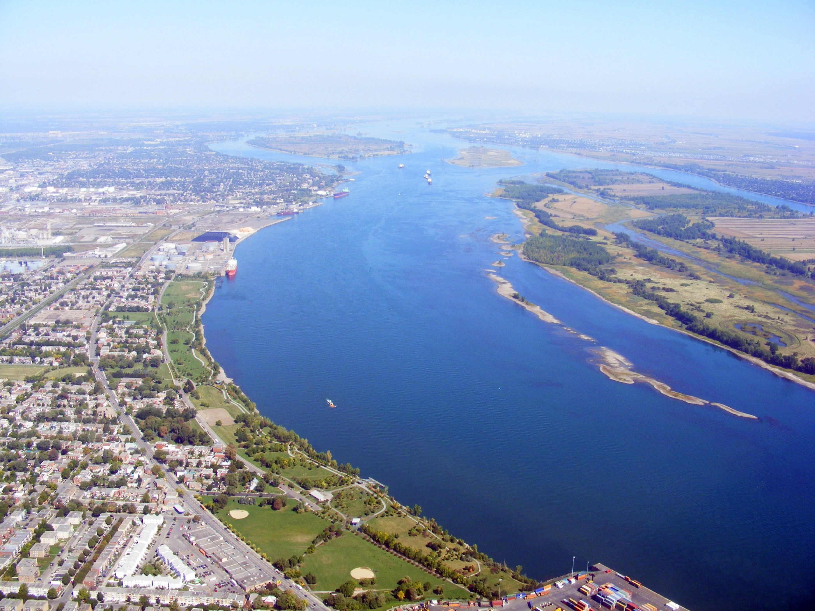 St-Lawrence River (Quebec, Canada) - aerial view